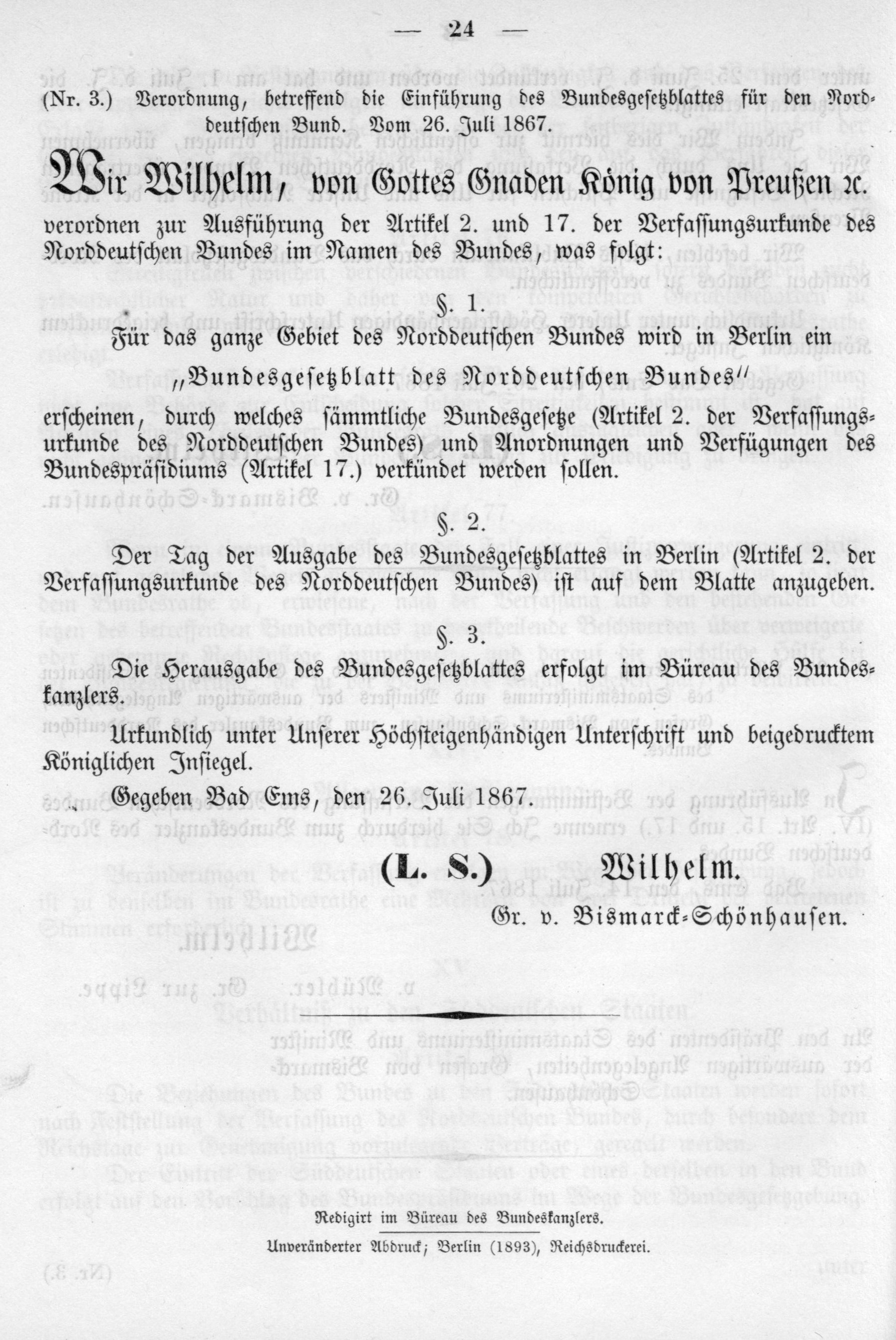 Scan from the Federal Law Gazette of the Northern-German Federation, 1867, copy-print 1891